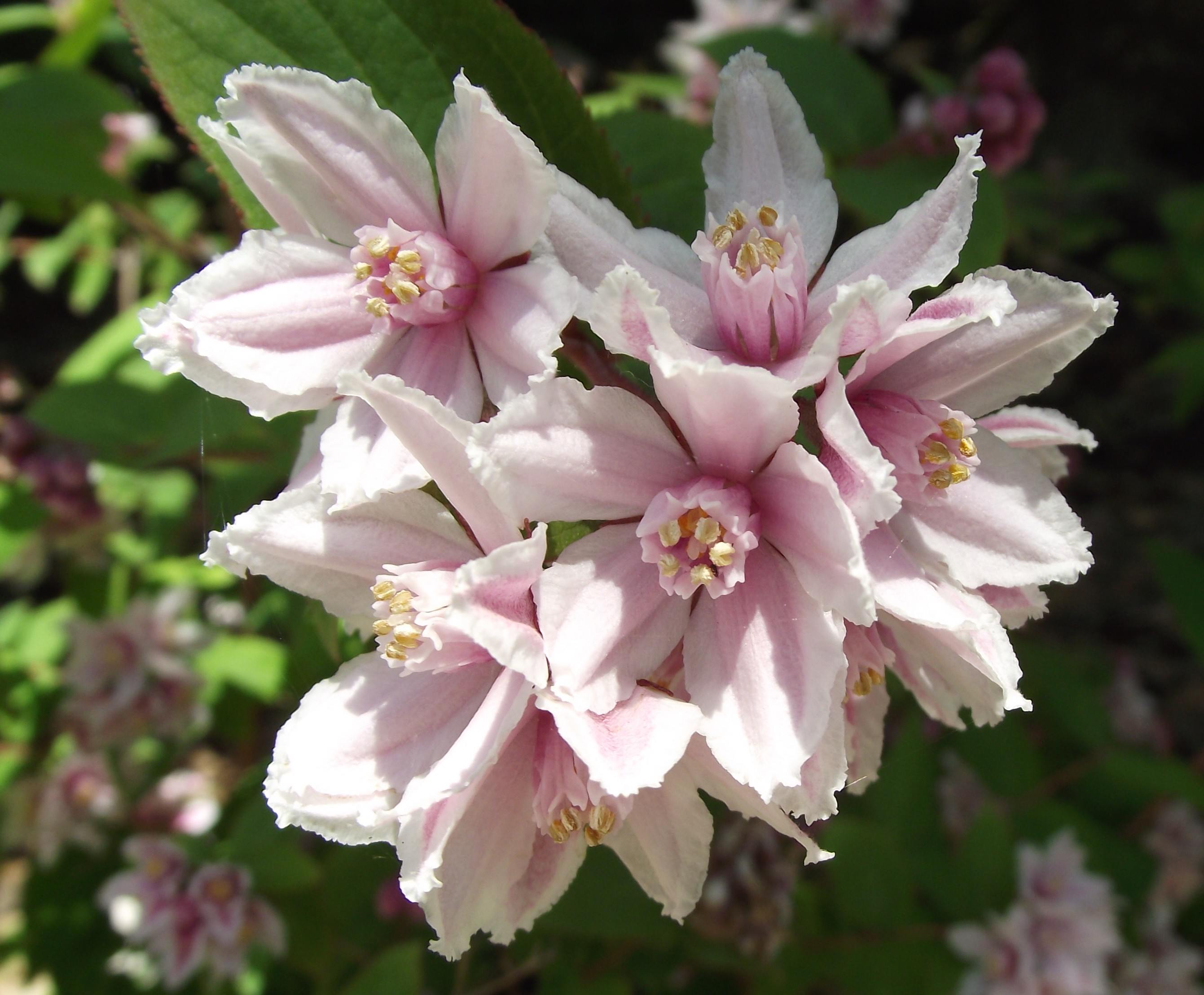 Deutzia longifolia in the UC Botanical Garden, Berkeley, California, USA. Identified by sign.